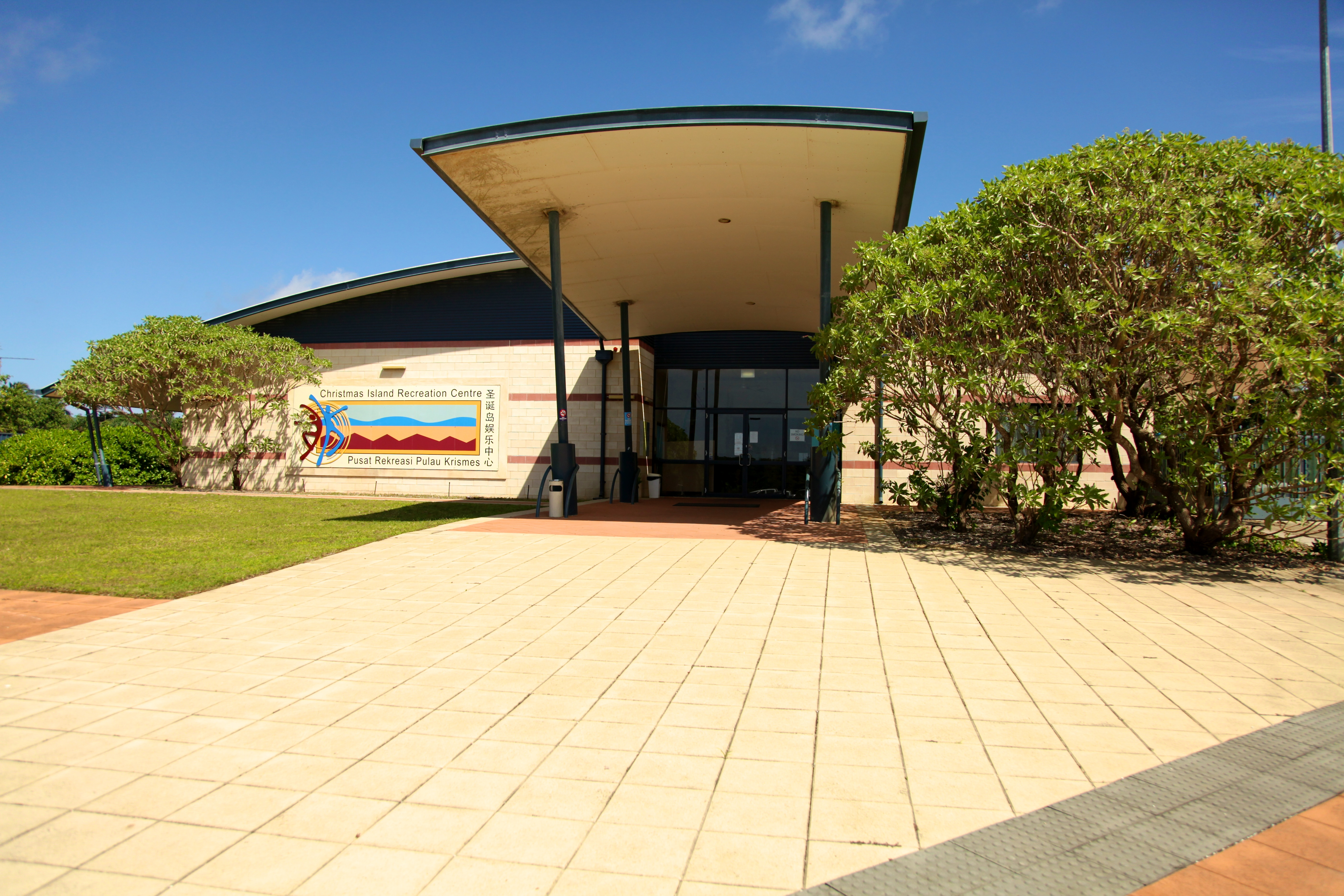 Christmas Island Recreation Centre.